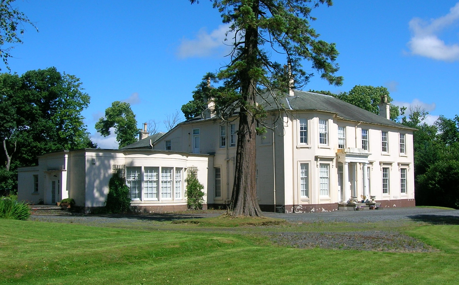 Ryefield House, Drakemyre, North Ayrshire, Scotland.